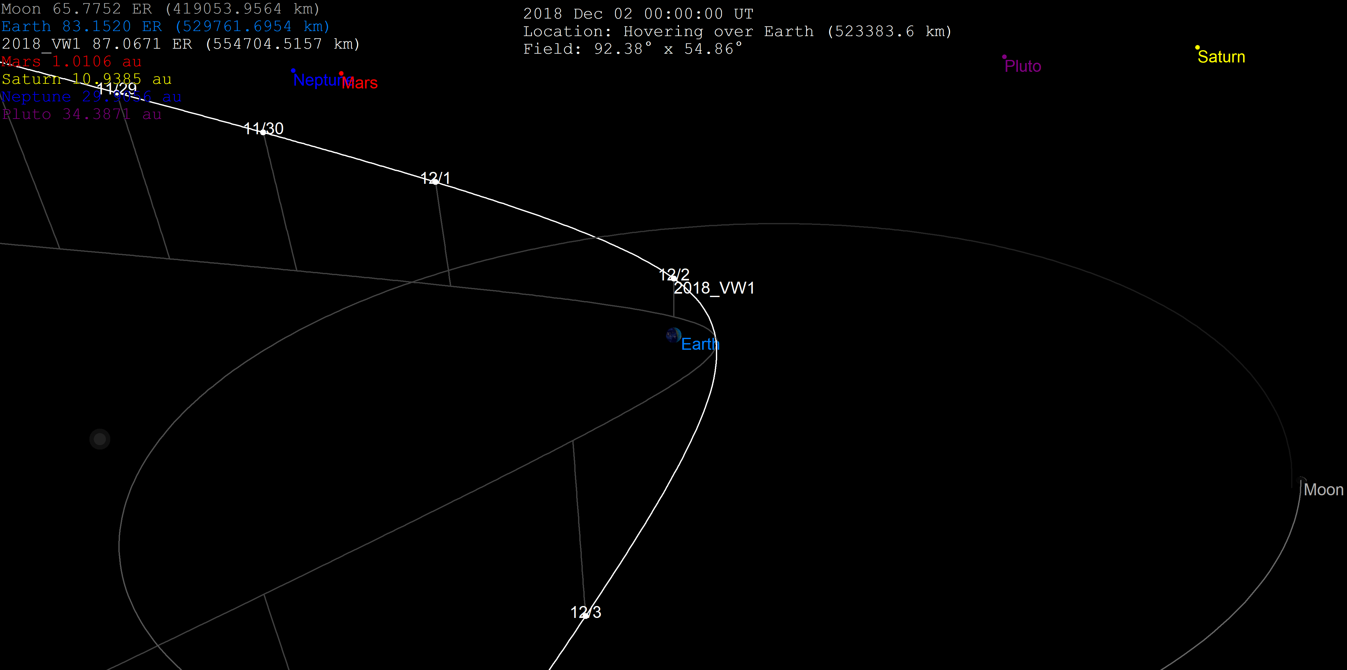 en:2017 WV1 flyby inside orbit of the moon on December 2, 2018